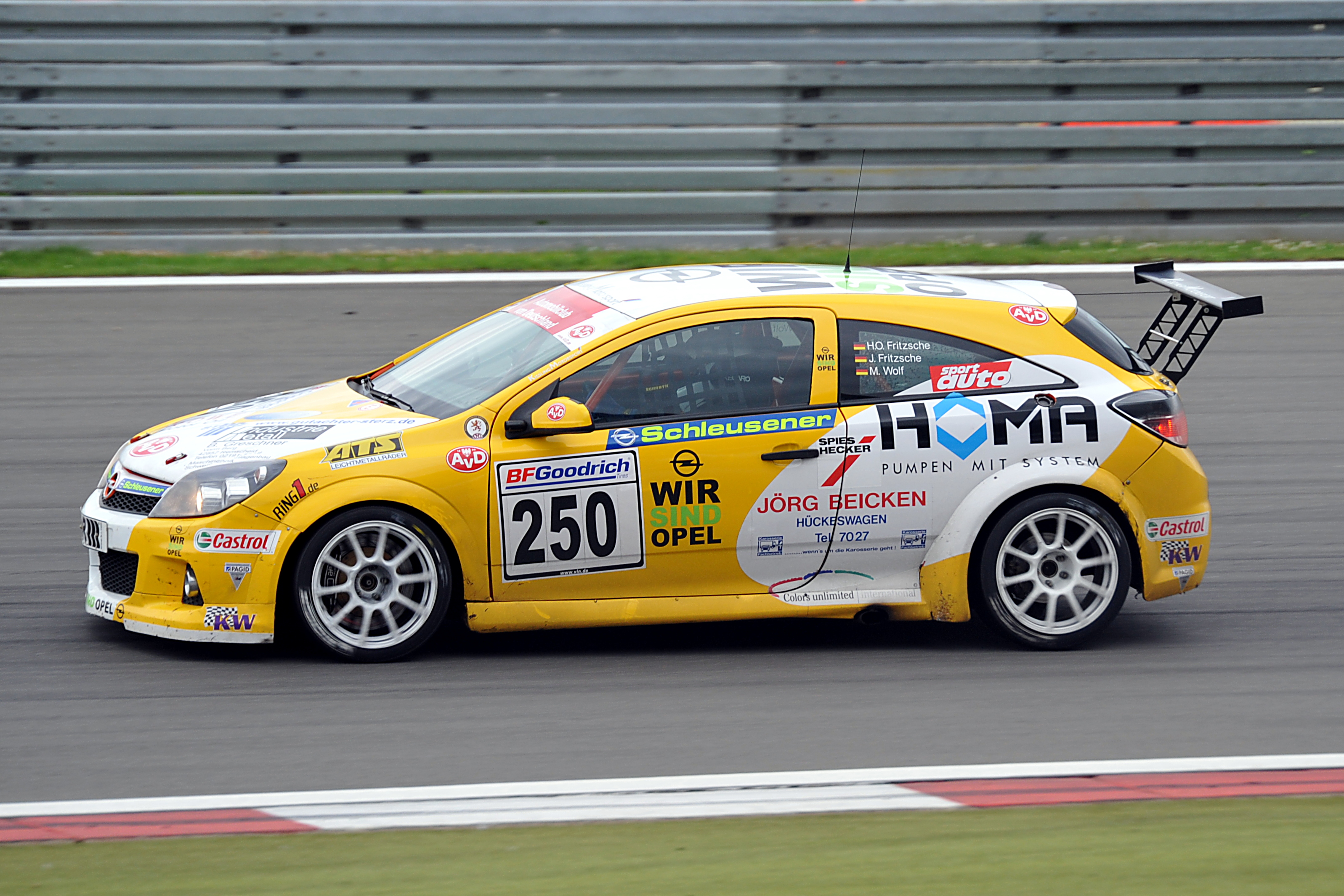 Opel Astra GTC (Heinz-Otto Fritzsche, Jürgen Fritzsche und Marco Wolf) of the Kissling Motorsport team during the "6h ADAC Ruhr-Pokal-Rennen" tournament of the "BF Goodrich Langstreckenmeisterschaft 2009" series on Nürburgring race course. They finished 19th and best in class (SP3).